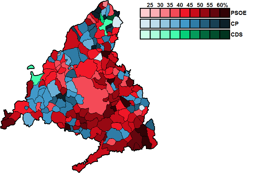 Most-voted party in Madrid municipalities, showing vote share obtained, in the Spanish general election, 1986.